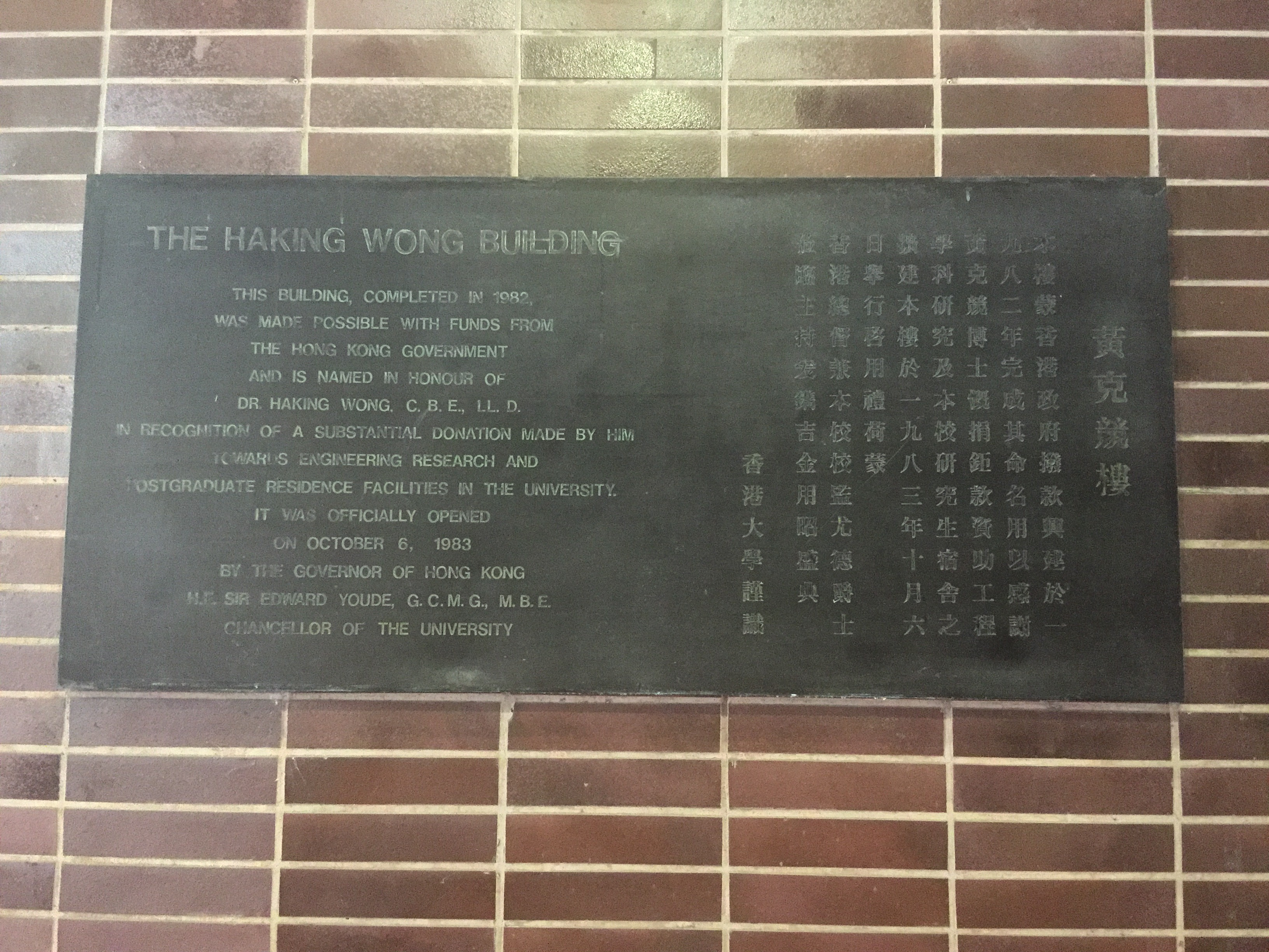 The foundation stone of HKU Haking Wong Building, built in 1983.